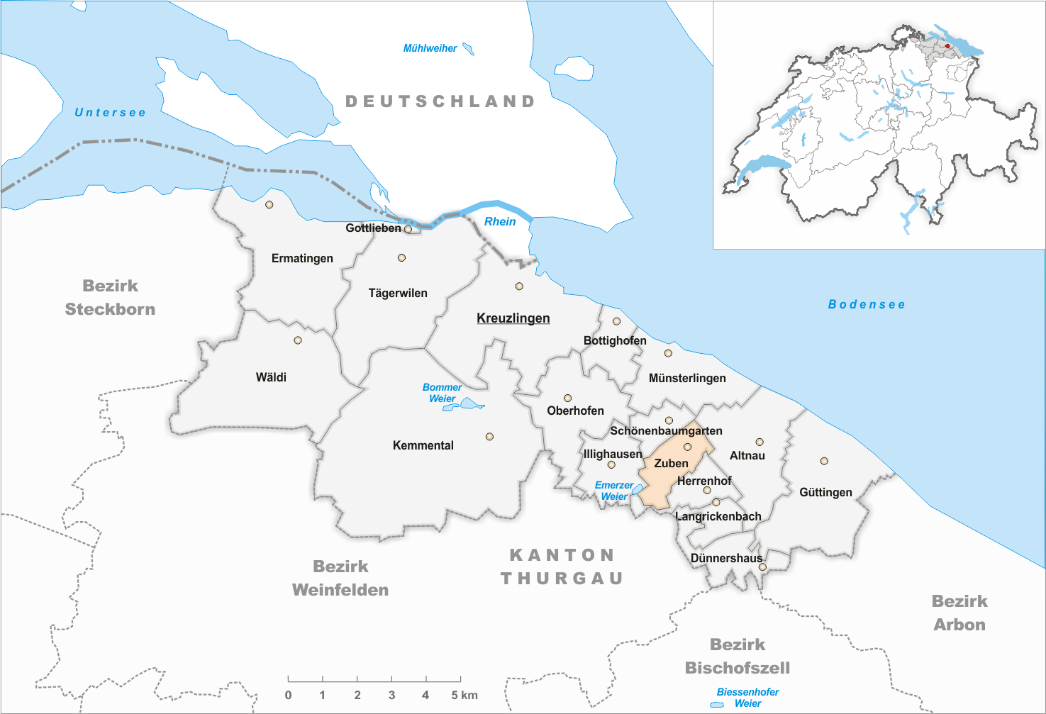 Municipality Zuben